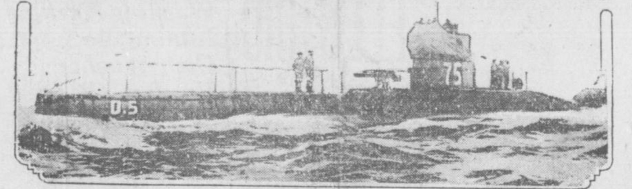 HMS D5 in the Bisbee paper January 7 1915